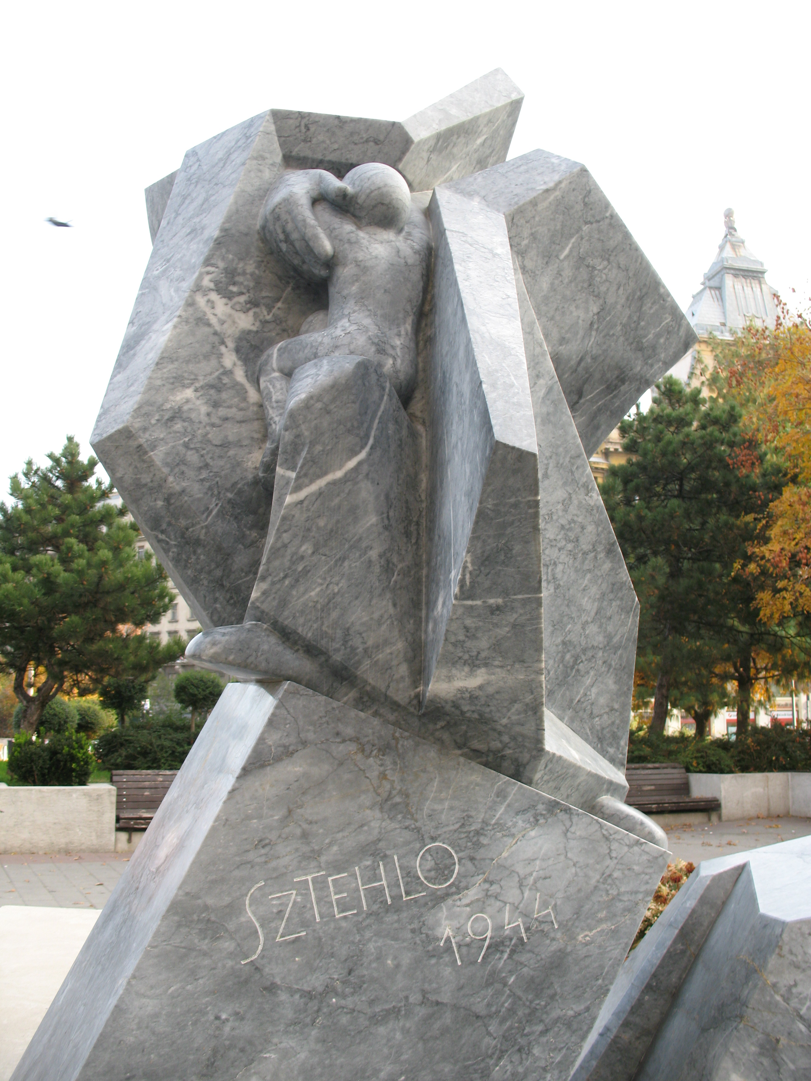 Monument of Gábor Sztehlo on Deák square in Budapest